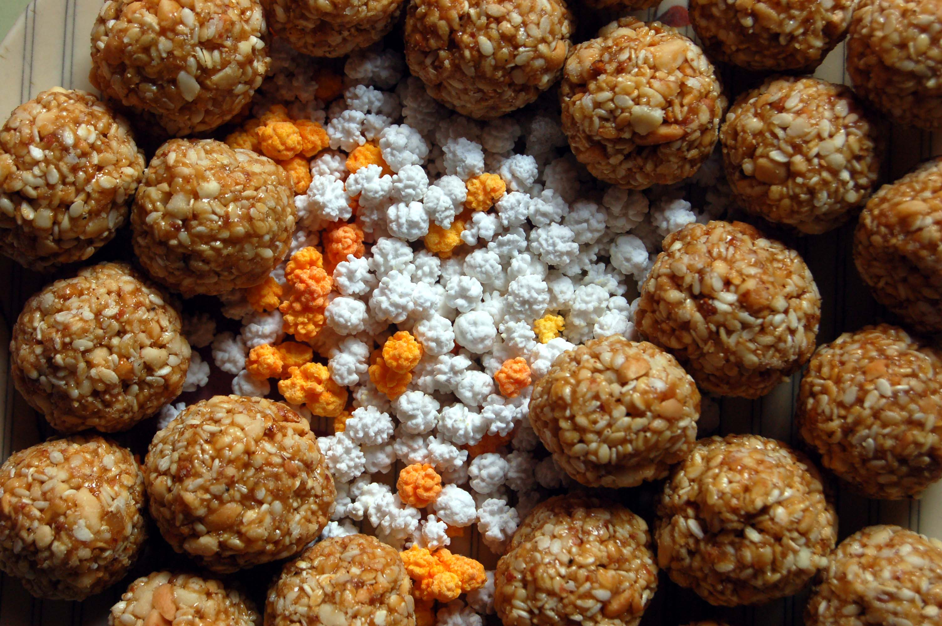 These 'tilguls', traditional marathi laddoos eaten on Makar Sankranti day.